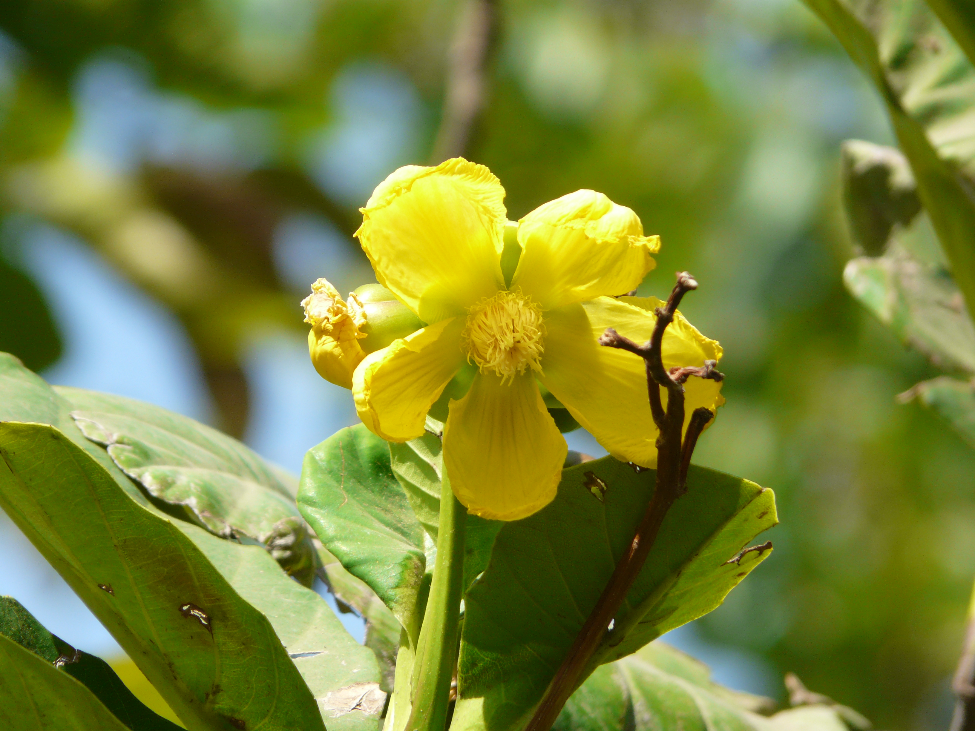 Dilleniaceae (Dillenia family) » Dillenia suffruticosa dil-LEN-ee-uh -- named for Johann Jacob Dillen, German botanist and physician suf-roo-tee-KO-sa -- meaning, somewhat shrubby Origin: West Malesia commonly known as: shrubby dillenia, simpoh References: PIER species info • Top Tropicals